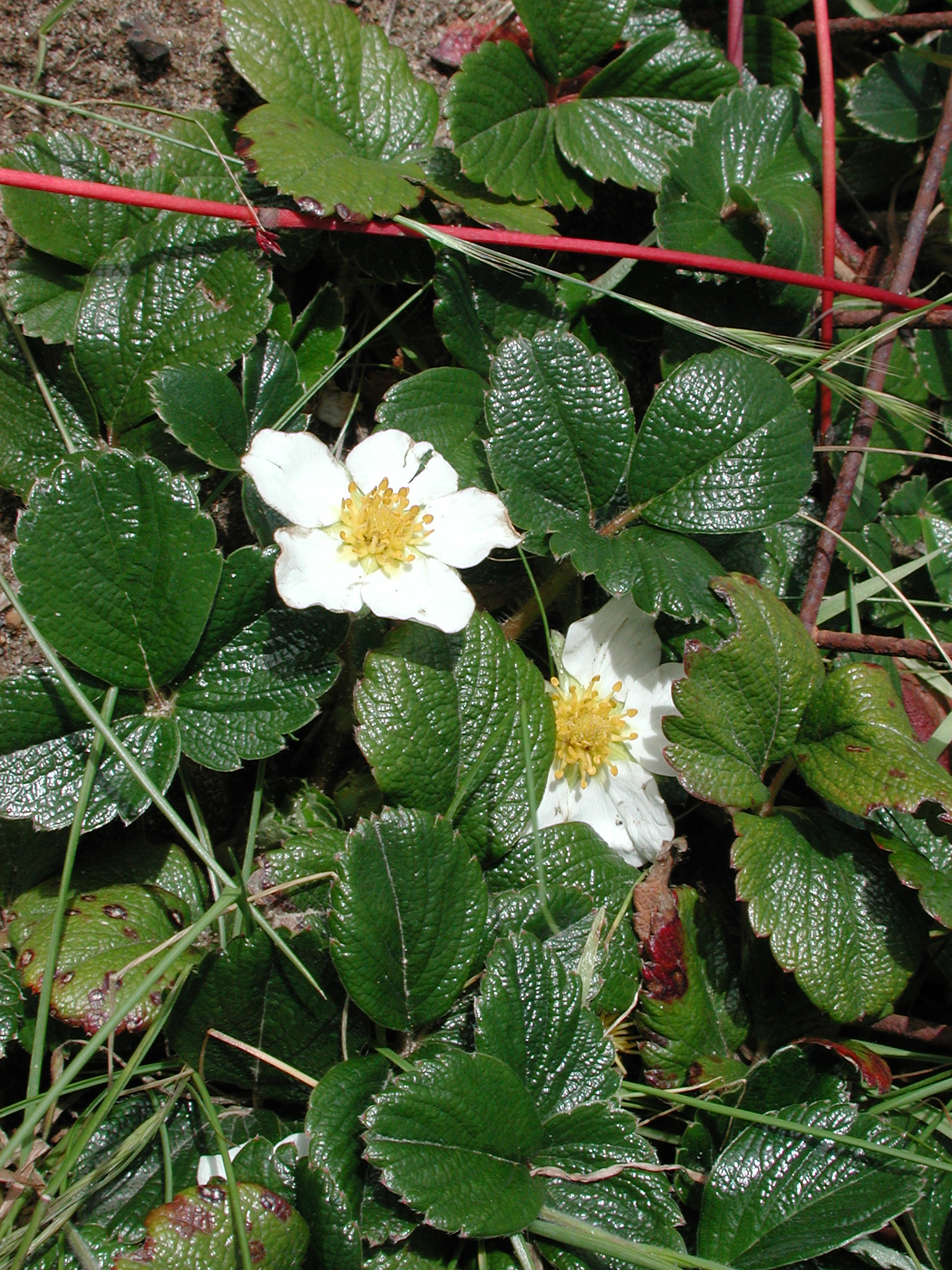 Fragaria chiloensis — Beach strawberry. On beach sand at Presidio Park, San Francisco, California.